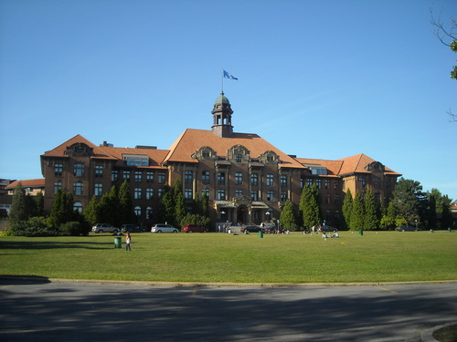 Front of the John Abbott College (main building Herzberg, main entry), Sainte-Anne-de-Bellevue, Canada